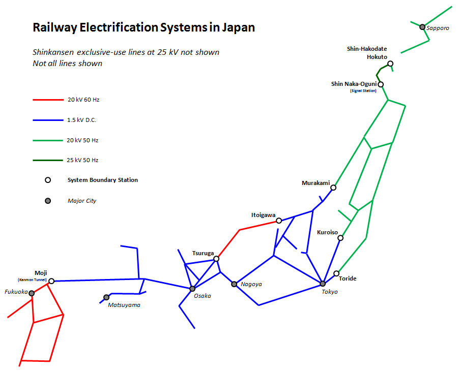 Japan's conventional mainline railway network schematic map showing electrification systems with voltage and frequency levels as of 2017. Third sector railways are included. Shinkansen exclusive-use trackage are not included. Municipal subways and other rapid transit networks are not included. Private railways are not included. This map may contain errors or simplifications, please feel free to correct and/or modify as appropriate.